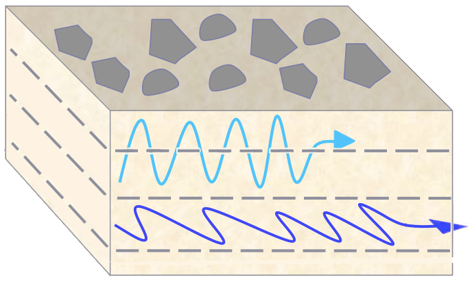 Shear wave propagation in anisotropic media